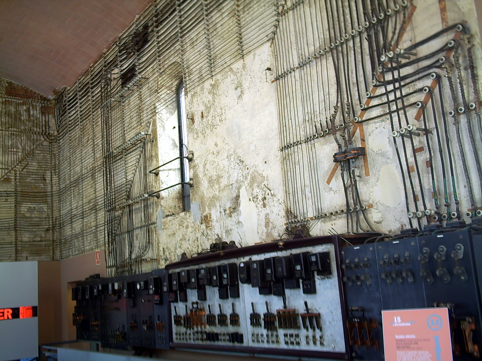 Distribution board from the textile factory, at the Museum of Science and Industry of Catalonia, Terrassa, (Catalunya).